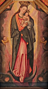 Obraz Matki Bożej Niepokalanej w kościele Franciszkanów Przemyślu